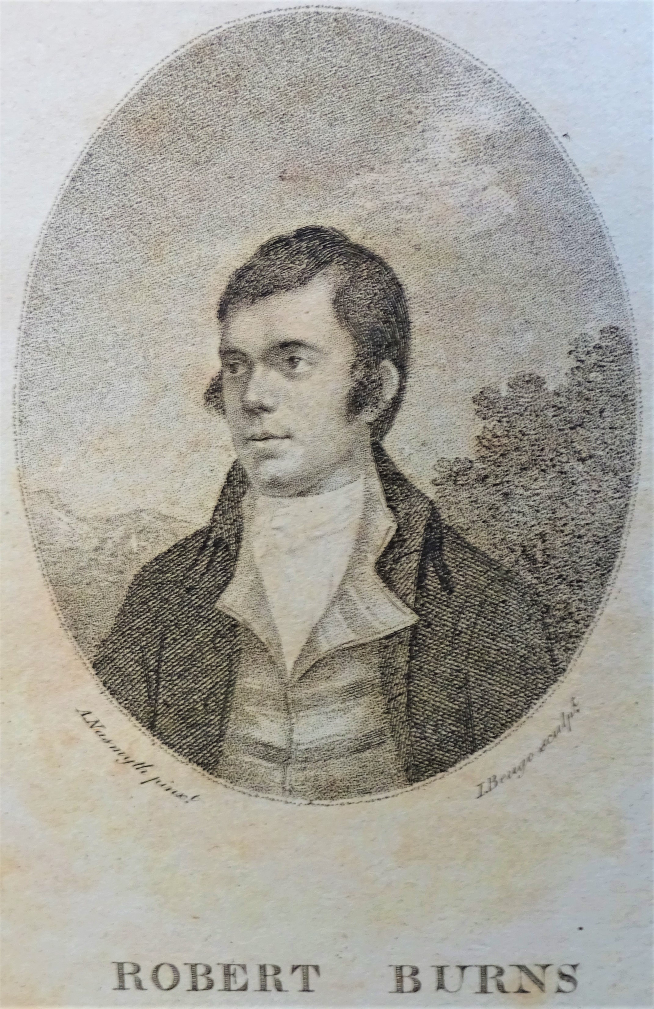 The 1794 Robert Burns portrait after A. Nasmyth by J. Beugo. Poems, Chiefly in the Scottish Dialect.